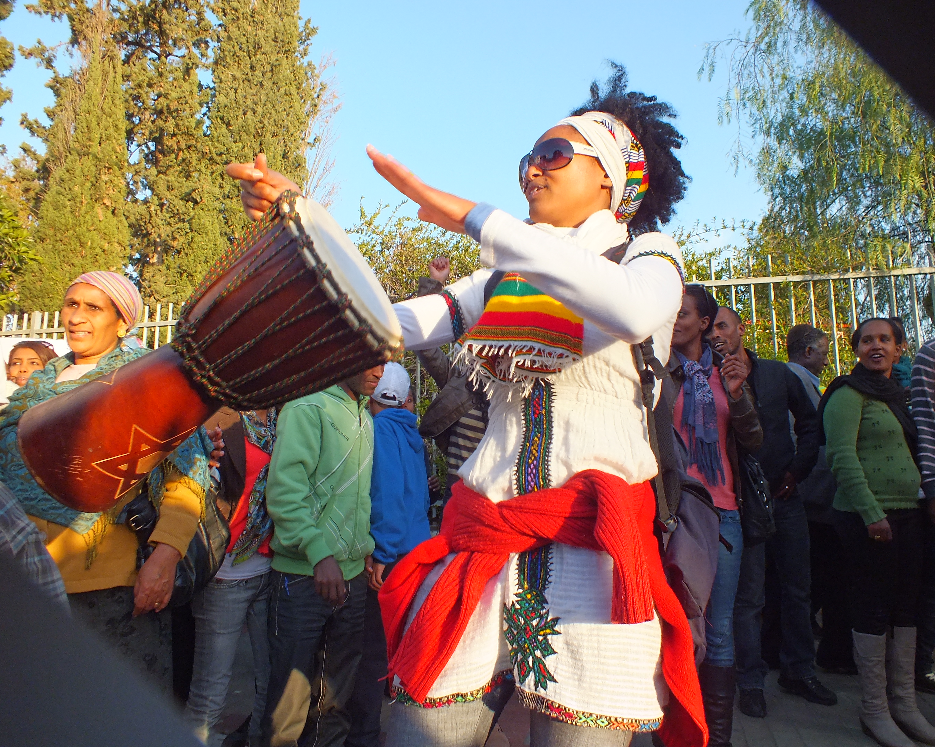 A scene at the 2012 Kiryat Mal'achi Anti-racism demonstration. Approx. 2,000 people attended and voiced against the discrimination of citizens with Ethiopian descent in Israel.